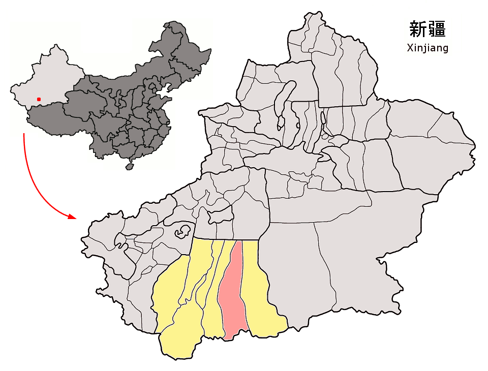 Location of Keriya County (pink) and Hotan Prefecture (yellow) within Xinjiang autonomous region of China Map drawn in september 2007 using various sources, mainly : Xinjiang Uygur autonomous region administrative regions GIS data: 1:1M, County level, 1990 Xinjiang Counties map from